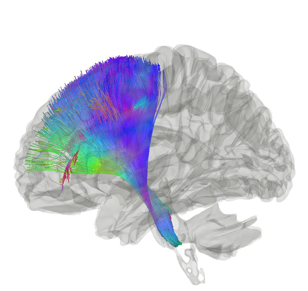 Tractography showing frontopontine tract on a population-averaged template